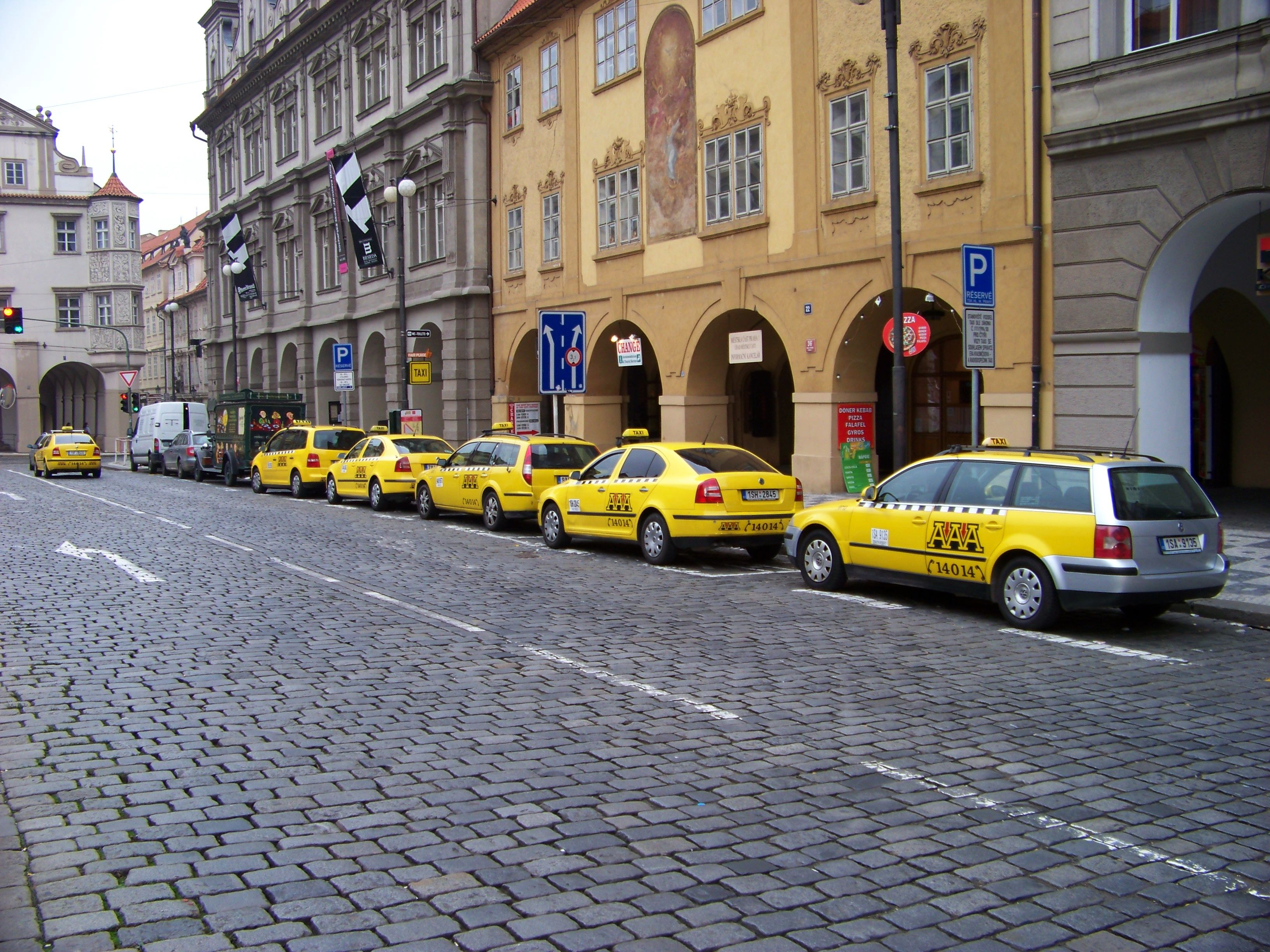 Prague-Malá Strana, the Czech Republic. Malostranské Square, a taxicab stand.